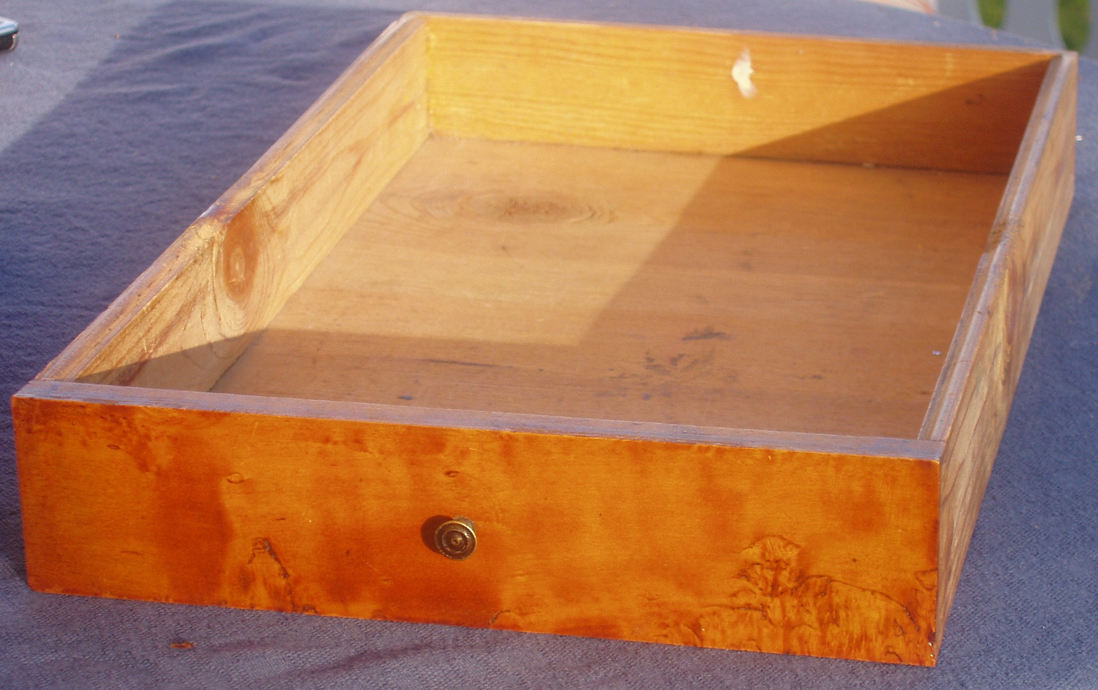 a drawer